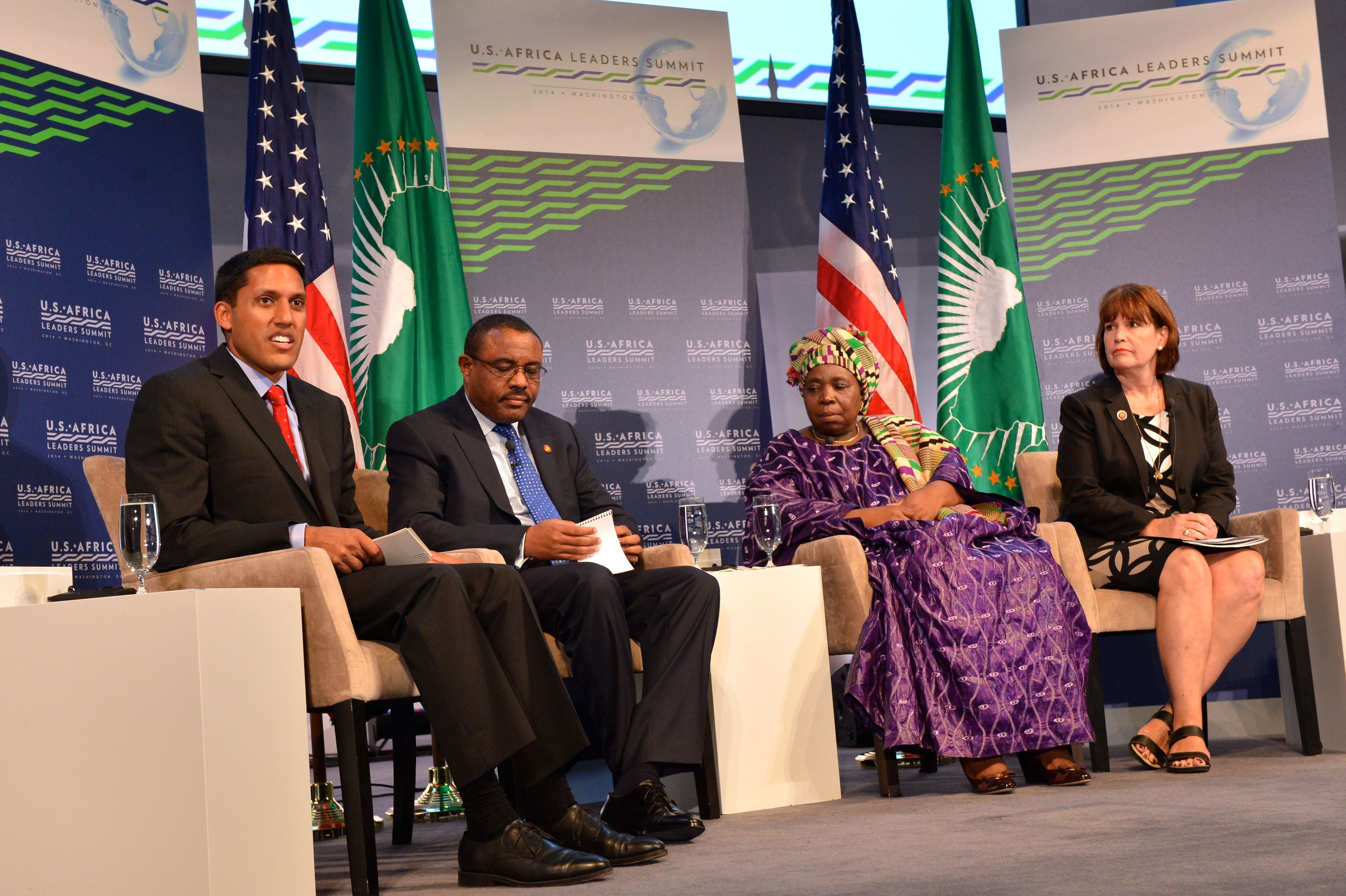 U.S. Agency for International Development Administrator Rajiv Shah speaks at a working session on “Resilience and Food Security in a Changing Climate,” at the National Academy of Sciences in Washington, D.C., on August 4, 2014. The event is part of the three-day U.S.-Africa Leaders Summit, the largest event any U.S. President has held with African heads of state and government. [State Department photo]